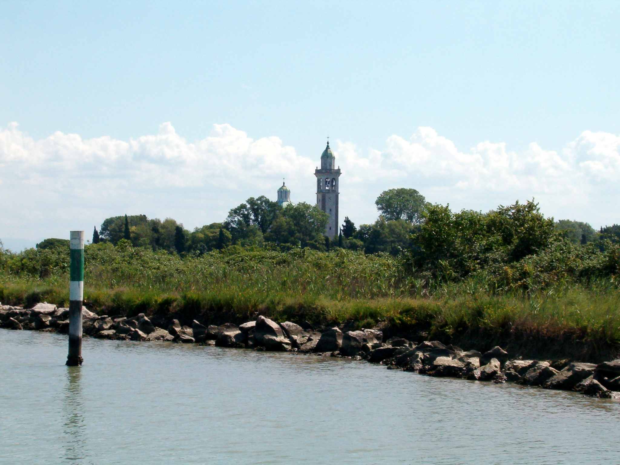 Barbana isle, Grado Lagoon, Grado (Province of Gorizia), Italy